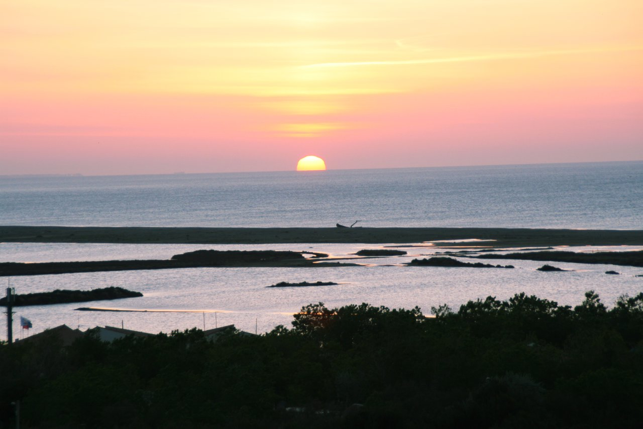 beach, Saint-Pierre-la-Mer, sunrise, lake, sea